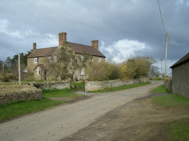 The Farmhouse at Church Farm